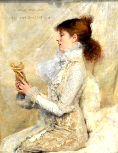 A portrait of Sarah Bernhardt in 1879, by Jules Bastien-Lepage, exhibited at the Legion of Honor in San Francisco. Photo by Jim Heaphy.